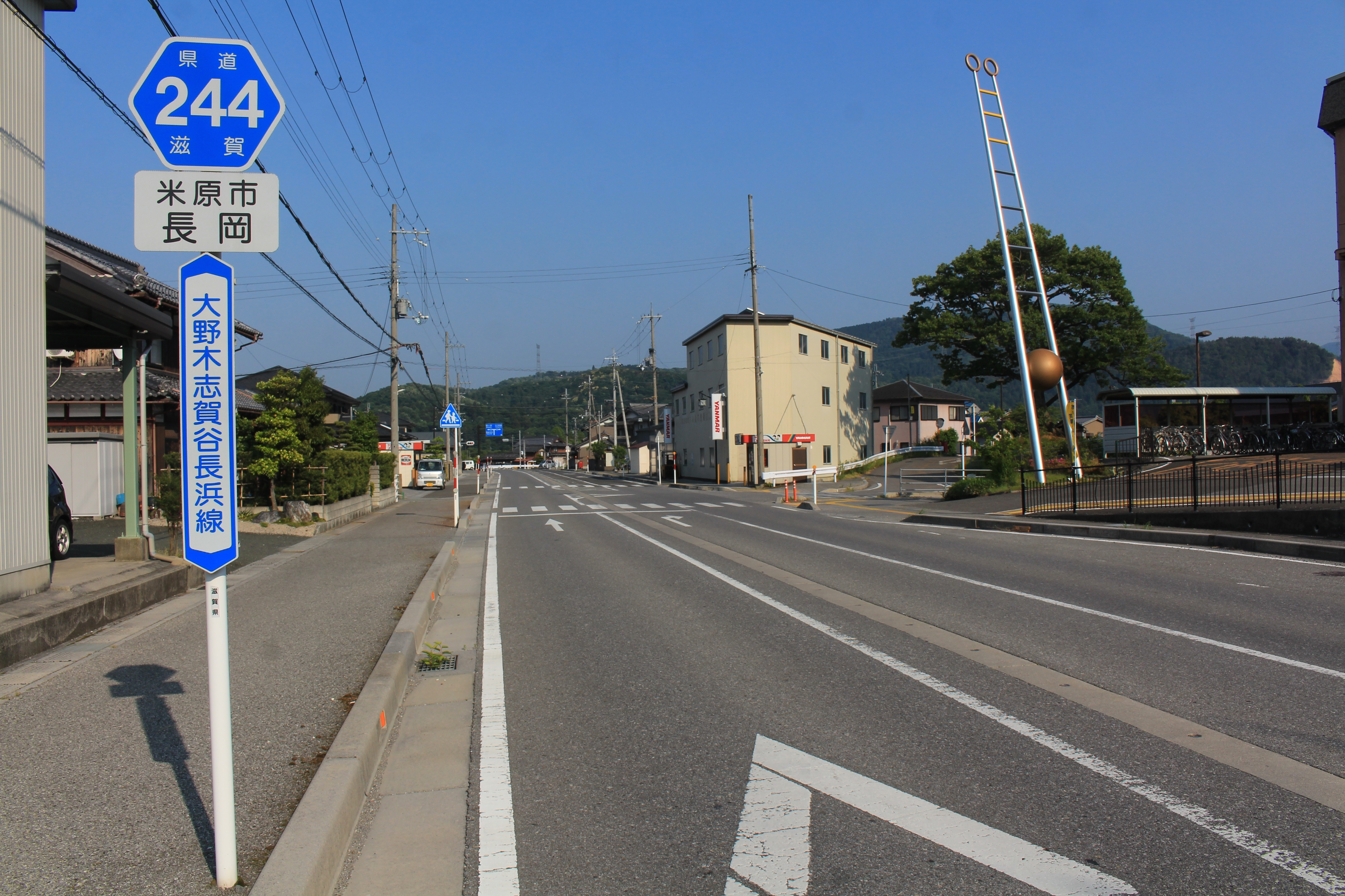 Shiga Prefectural Road Route 244 in Nagaoka, Maibara, Shiga prefecture, Japan.